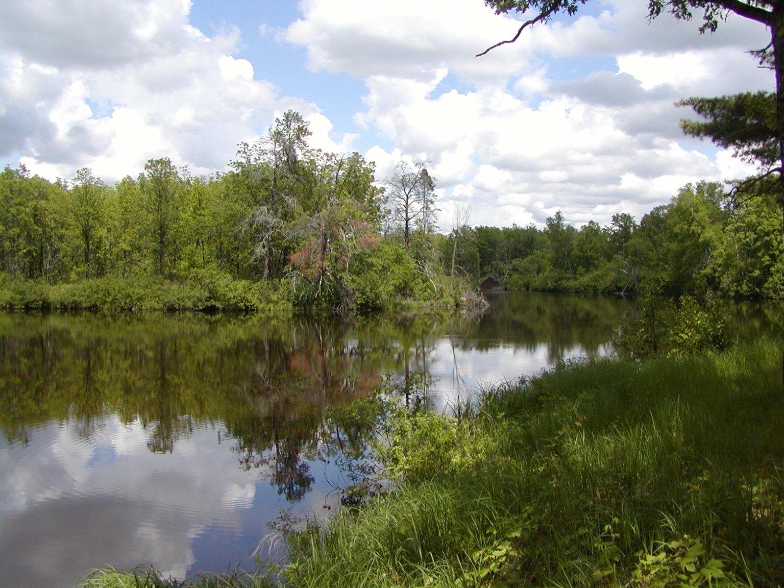 Group cabin area of St. Croix State Park, Minnesota.